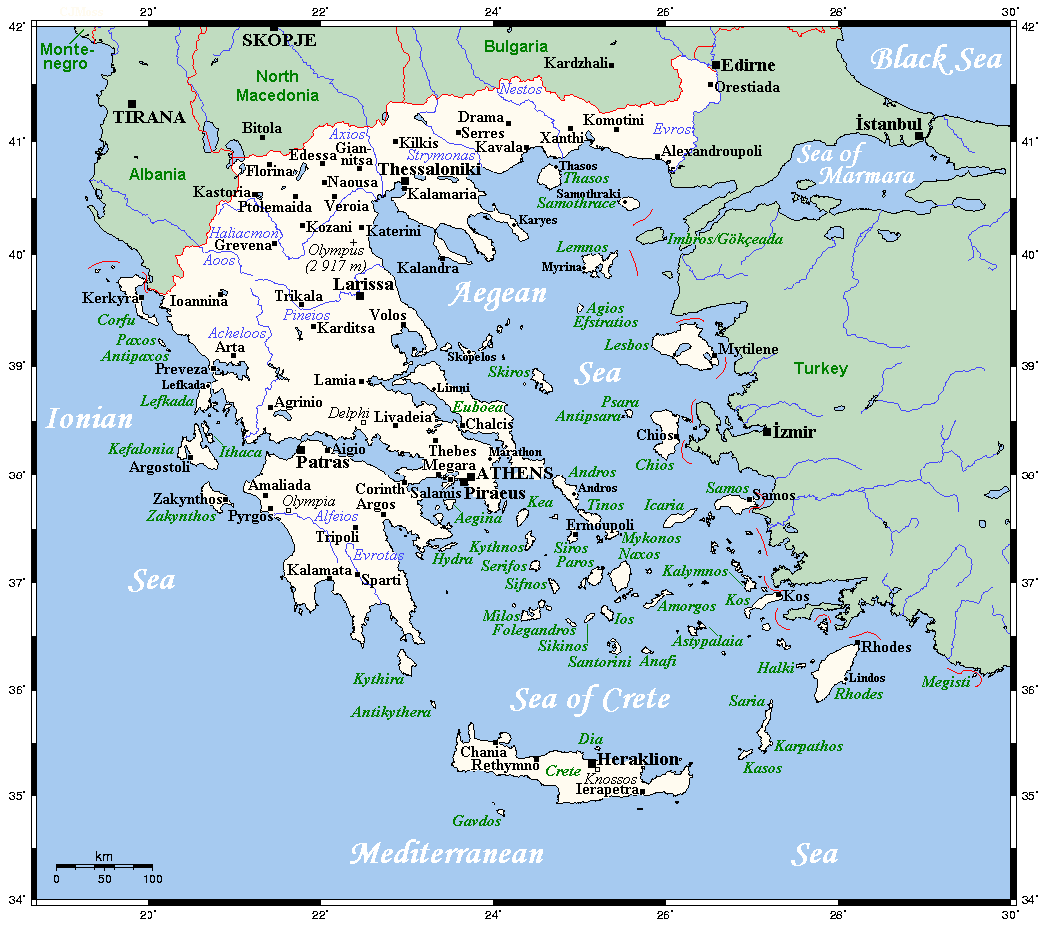 A map showing Greece's cities and main towns.